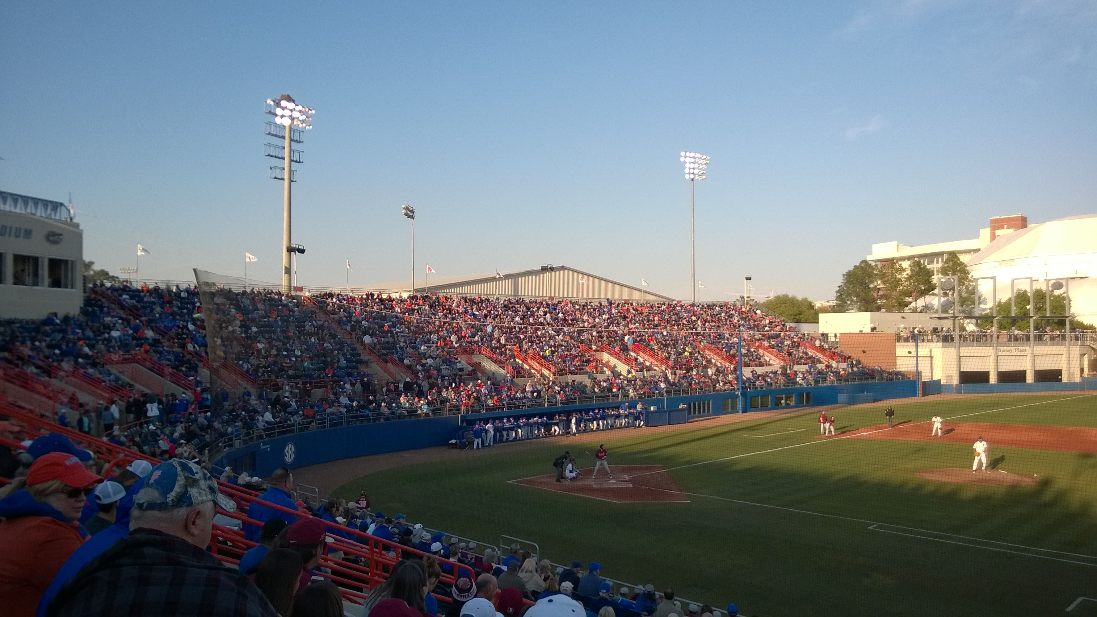 Florida versus Florida State, McKethan Stadium Attendance: 5,979 Final Score: 12–6, Florida